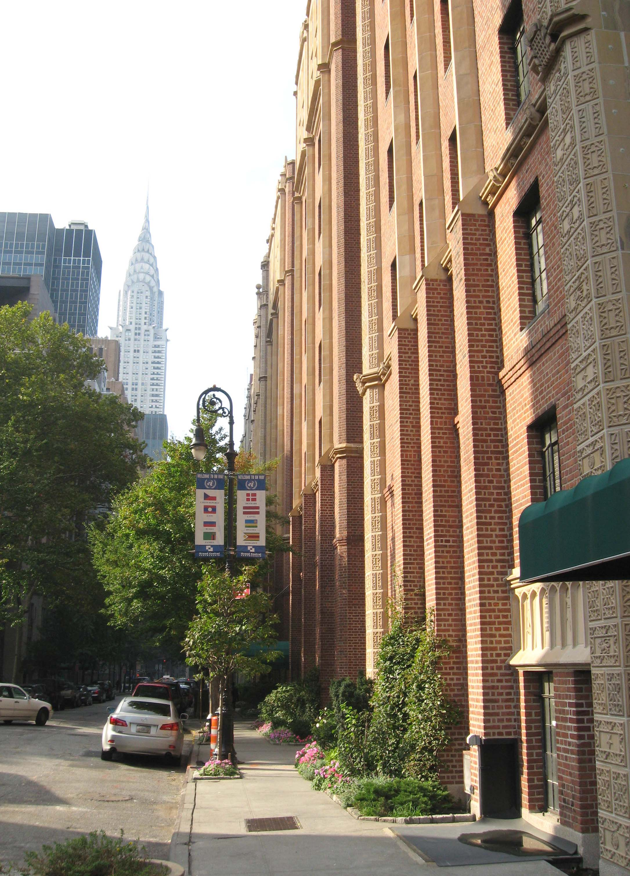 Looking northwest along 43d Street at northern buildings of Tudor City on a sunny afternoon during Openhousenewyork.